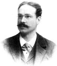 Hinke Bergegren in en:1891.